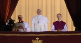 Pope Franciscus after his election.